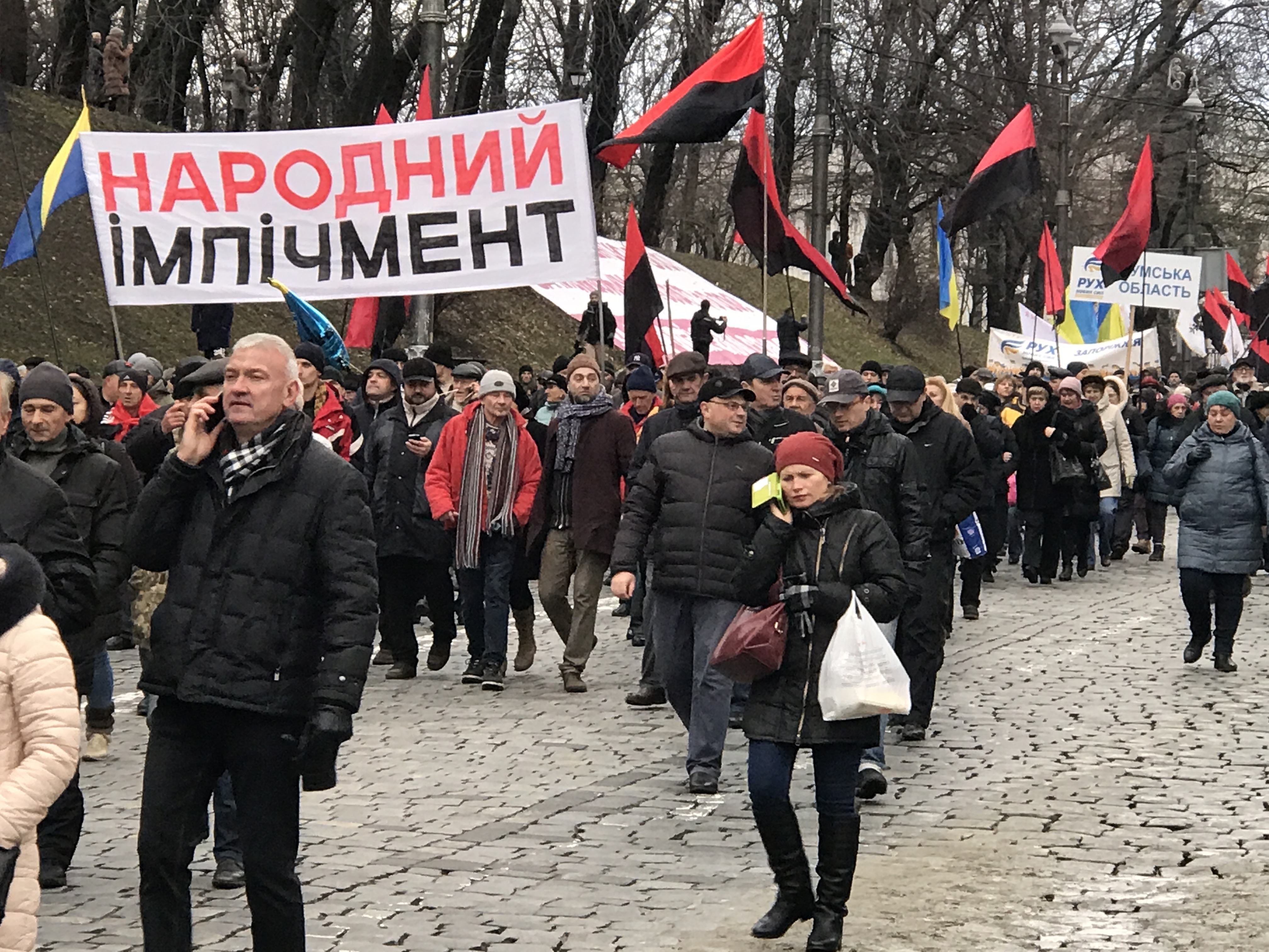 Impeachment March (Kiev; 2017-12-03)